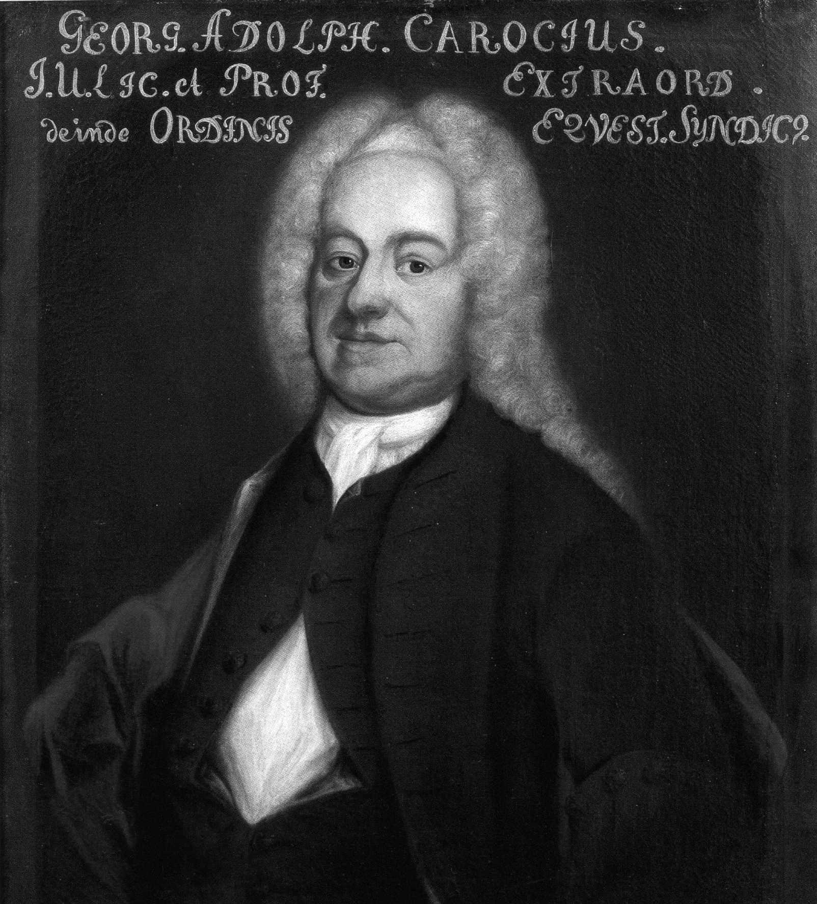 Bildnis Georg Adolf Caroc (1679–1730/32)